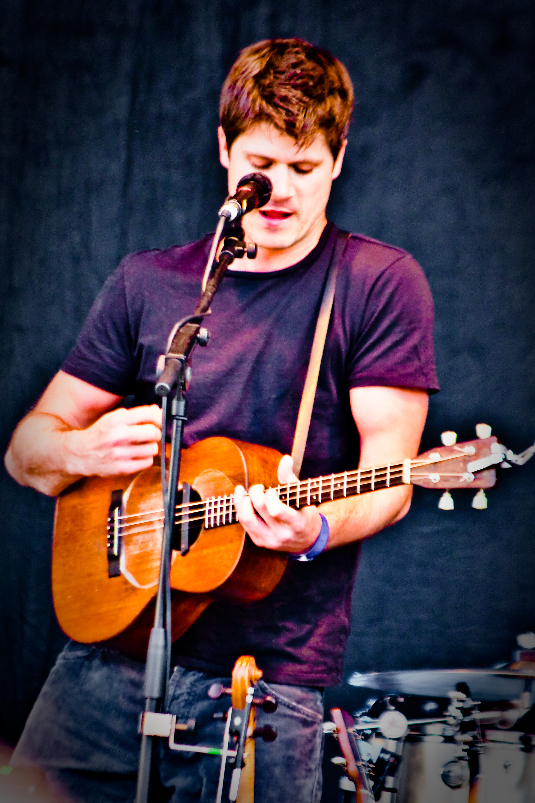 Seth Lakeman playing at the St George's Day celebration at Trafalgar Square. [Proof of concept: edited using Lightroom 2 on a 10" netbook, uploaded on location.]